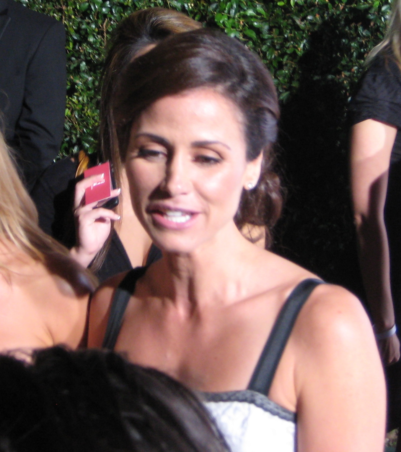 Valerie Cruz at Entertainment Weekly/Revlon Party, Beverly Hills Post Office, Sept. 20, 2008